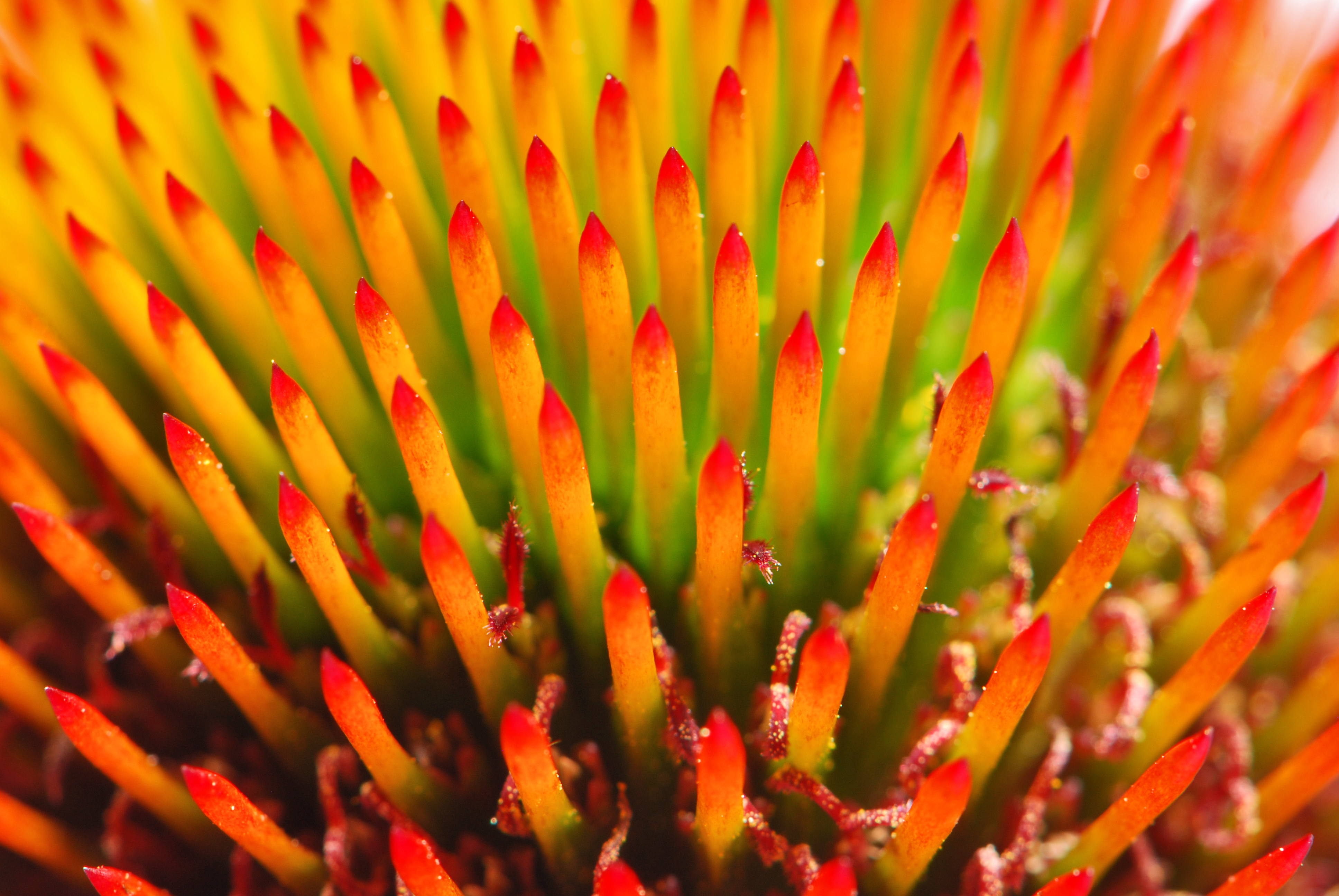 The narrow-leaved purple coneflower, blacksamson echinacea (Echinacea angustifolia) is a herbaceous plant species in Asteraceae. This image is a close-up of the flower's central disk during bloom. Magnification of 1:0.75.